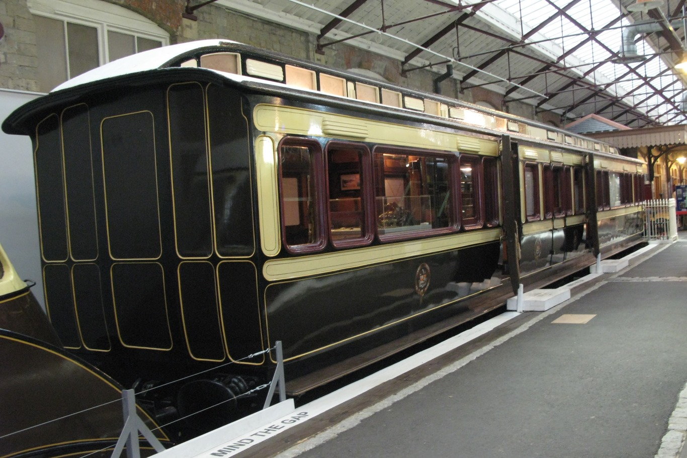 Inside the Great Western Railway Victorian royal saloon that is preserved at Steam, the Museum of the Great Western Railway in Swindon.